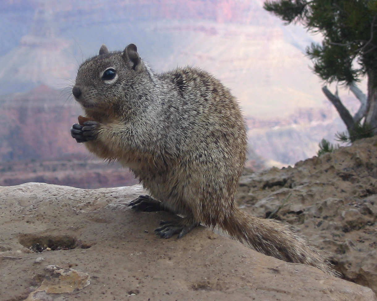 Otospermophilus variegatus Location: Grand Canyon